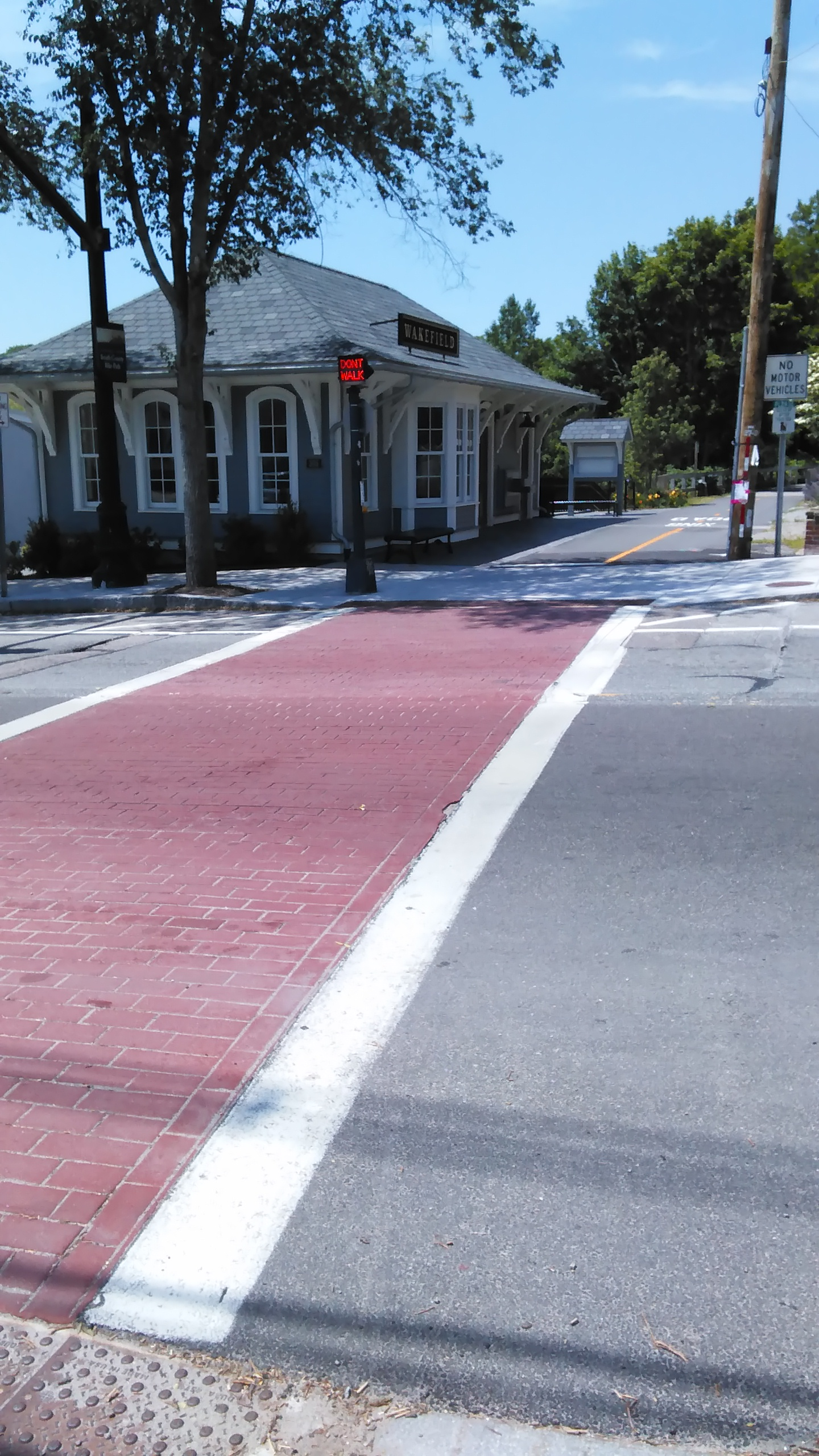 South County Bike Path crossing Main Street (Route 1A), with the former Wakefield station at left